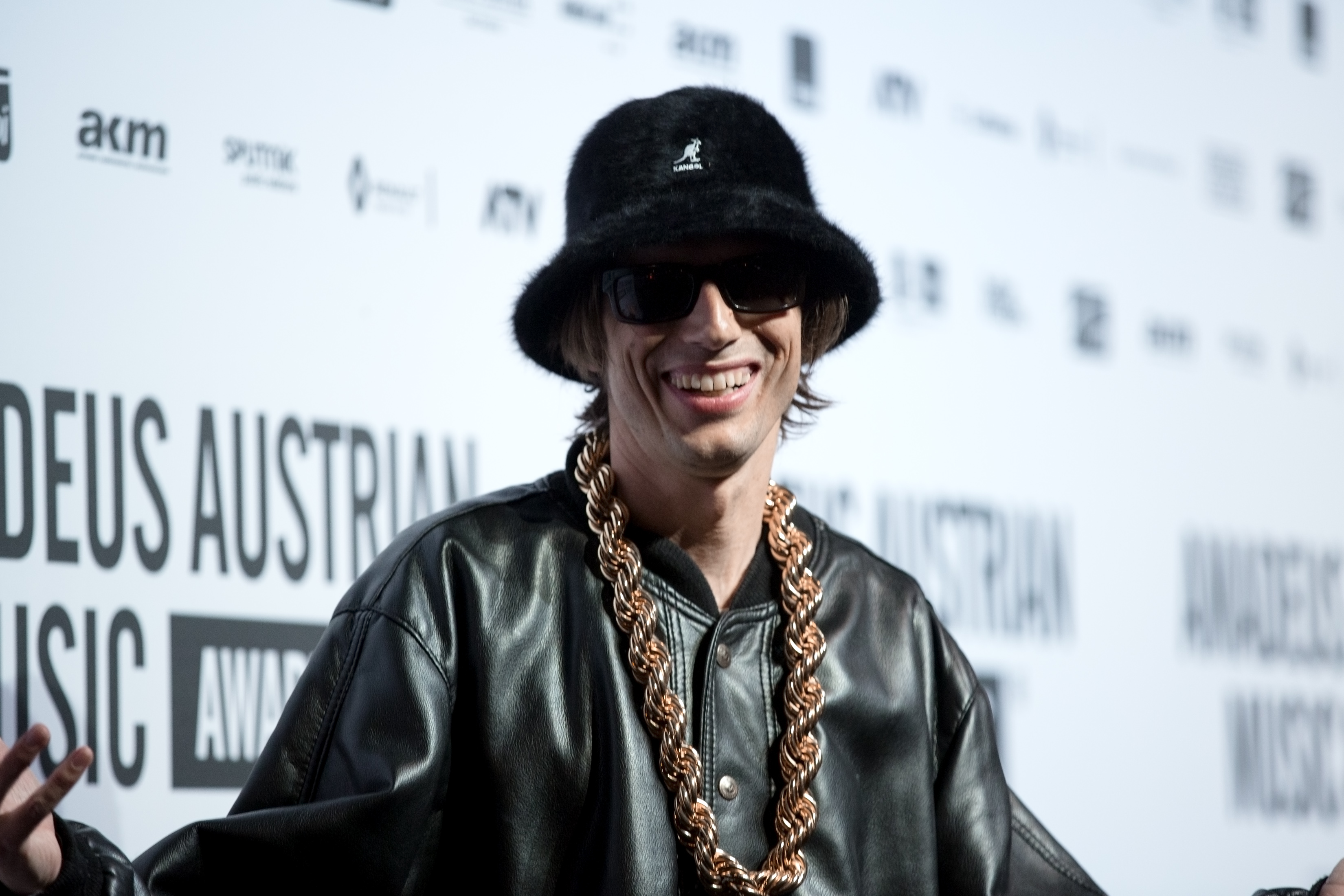 Skero at the Amadeus Austrian Music Award 2015 at Volkstheater in Vienna